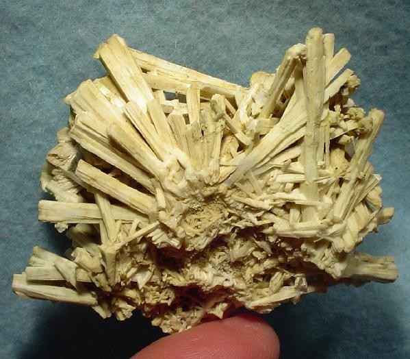 Natrolite Locality: Piz Sella, Plan de Gralba (Kreuzboden), Selva di Val Gardena (Wolkenstein in Grödner Tal), Gardena Valley (Gröden Valley), Bolzano Province (South Tyrol), Trentino-Alto Adige, Italy (Locality at ) Size: 6.0 x 4.8 x 2.6 cm. A superb radiating, jackstraw cluster of cream-colored natrolite crystals from a famous Italian locality - Piz Sella, Gardena Valley. The long crystal 3.8 cm long. Ex. Phil Scalisi and George Elling Collections.